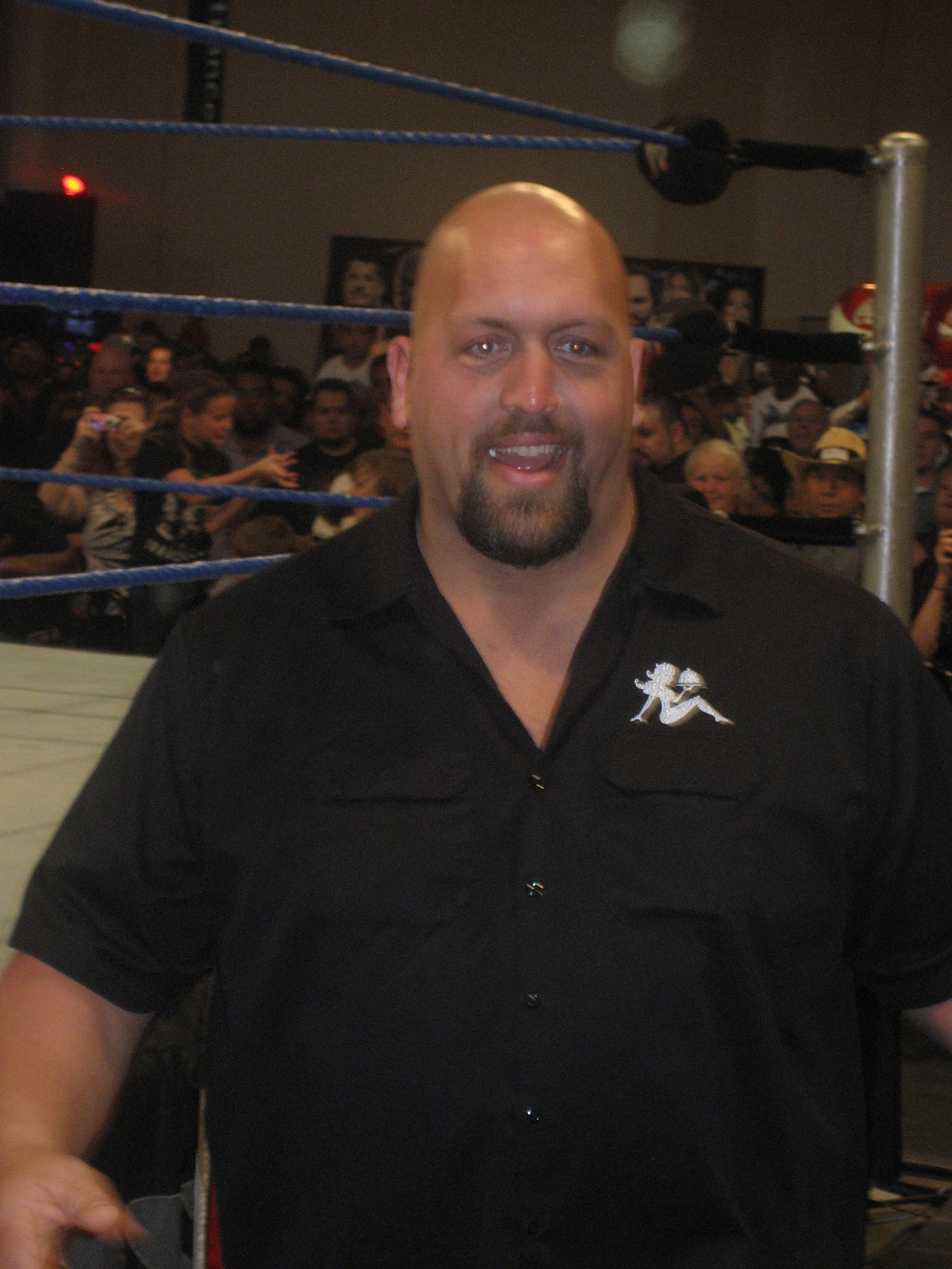 Big Show in the WrestleMania XXV Fan Axxess.